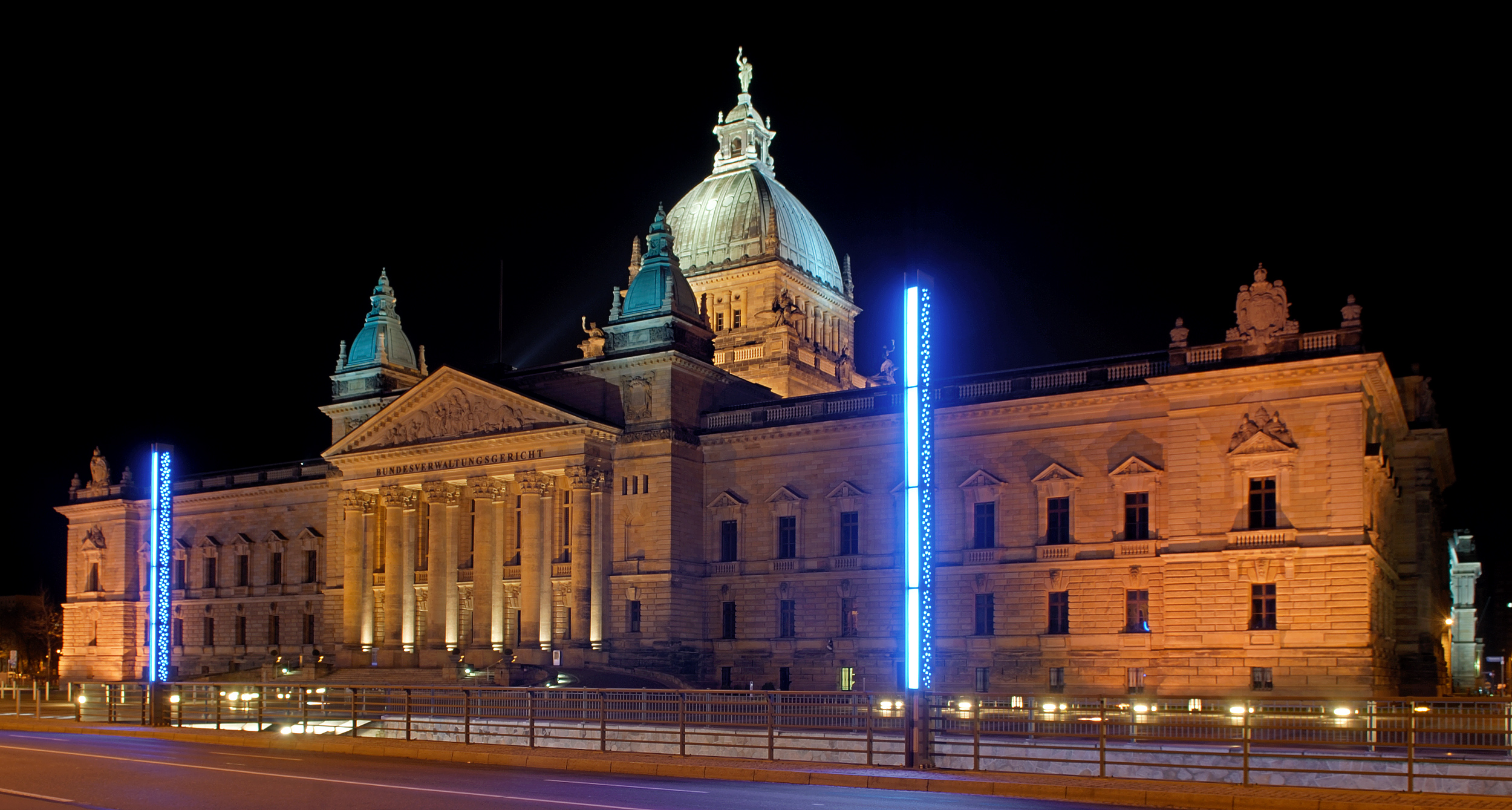 This image shows the Federal Administrative Court in Leipzig, Germany at night. It has been made of six differently exposured takes that were combined using HDR techniques.